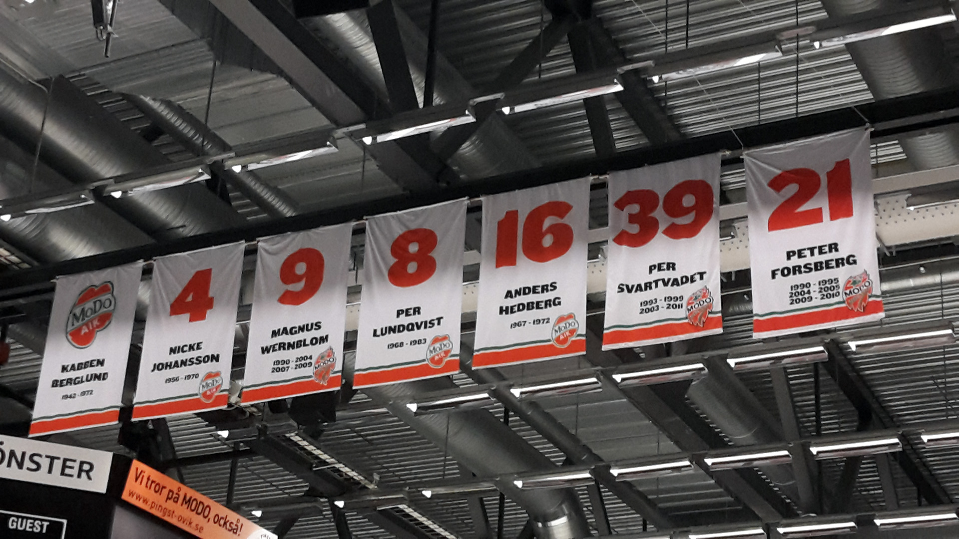 Retired numbers of Modo Hockey at Fjällräven Center.